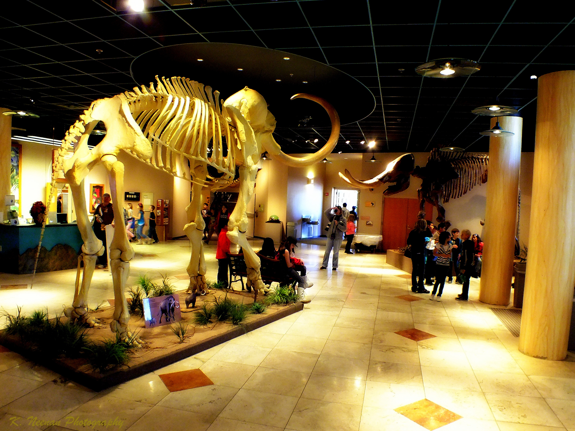 Colombian Mammoth and N. American Mastodon in Lobby of AzMNH